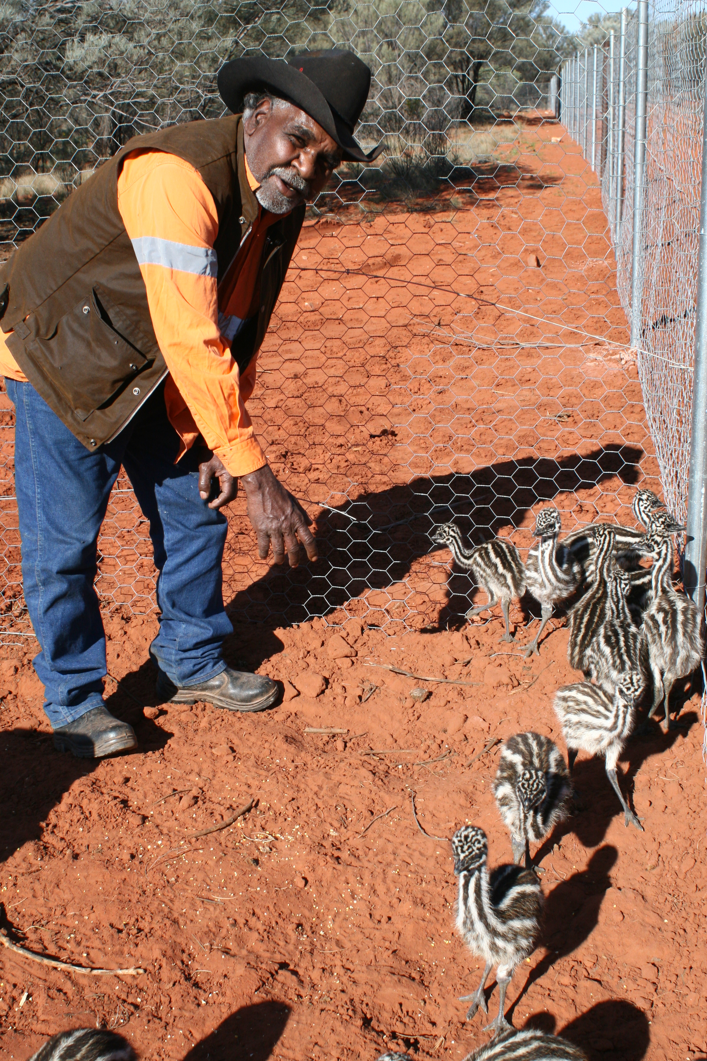 Indigenous Ranger David Wongway helping emu chicks on Angas Downs Indigenous Protected Area.